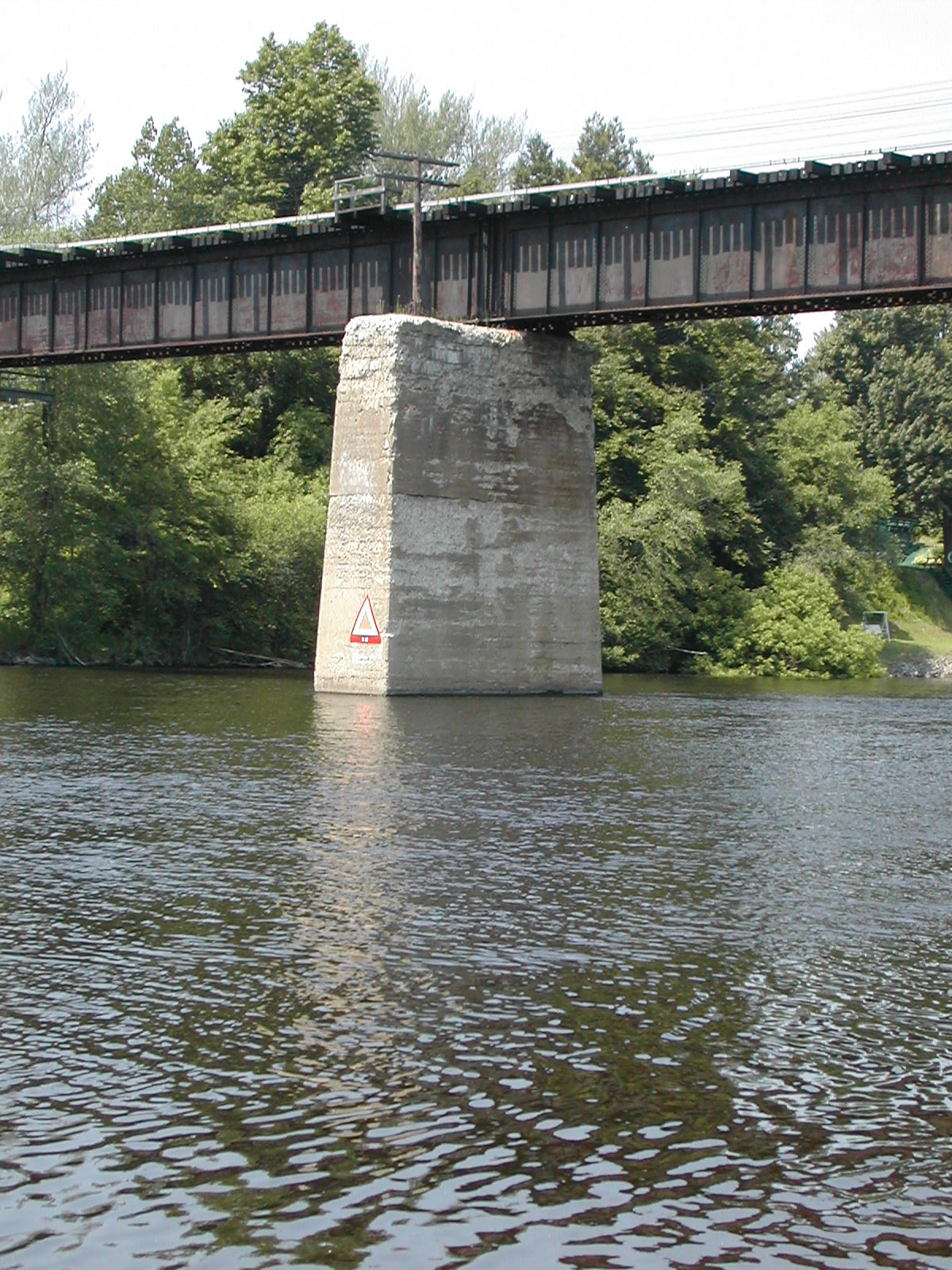 Railway bridge over Rideau River built by Canadian Northern Ontario Railway